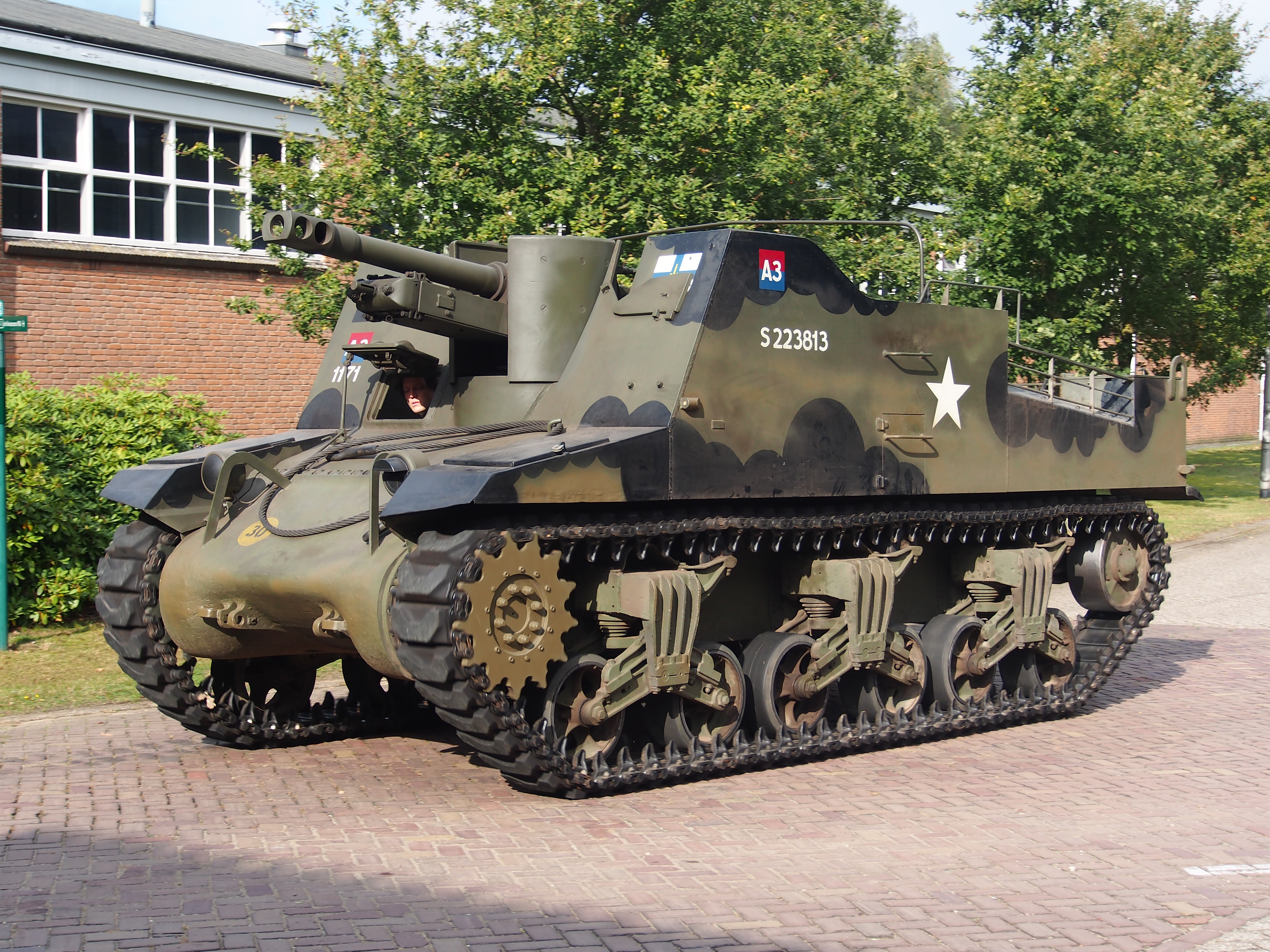 Sexton 25pdr S223813 at the Cavalry museum on the "Friends of the museum day"